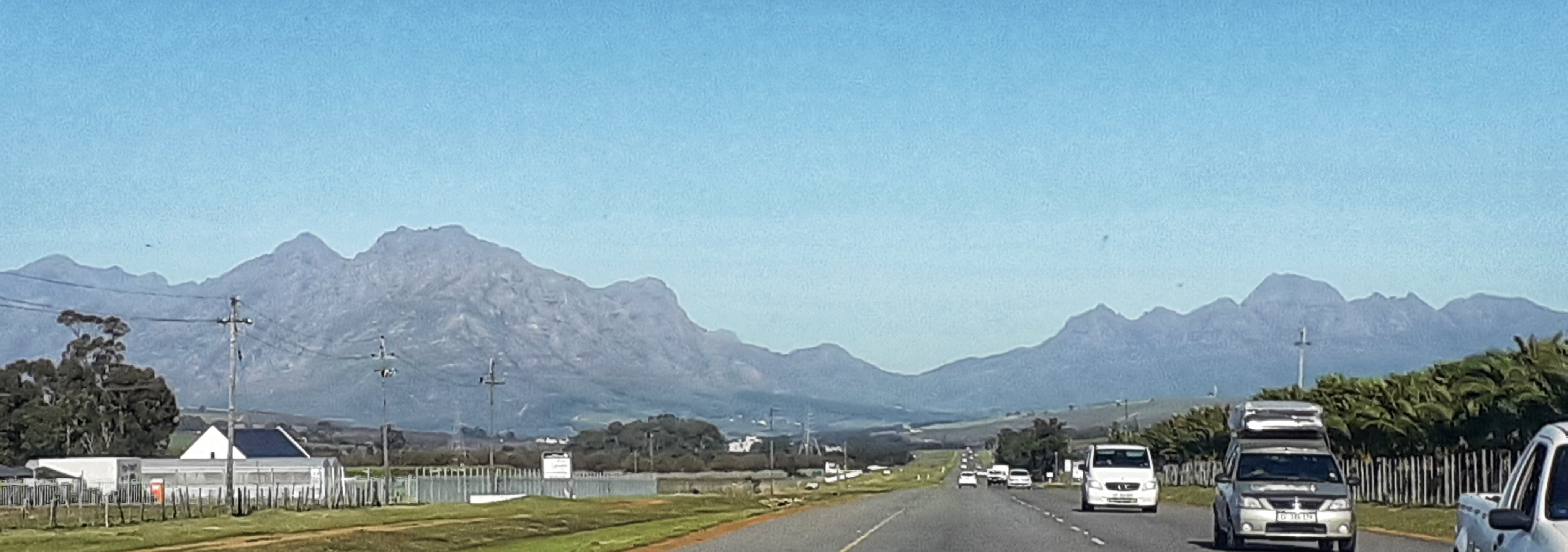 R604 road with a view of the Jonkershoek and Stellenbosch Mountains